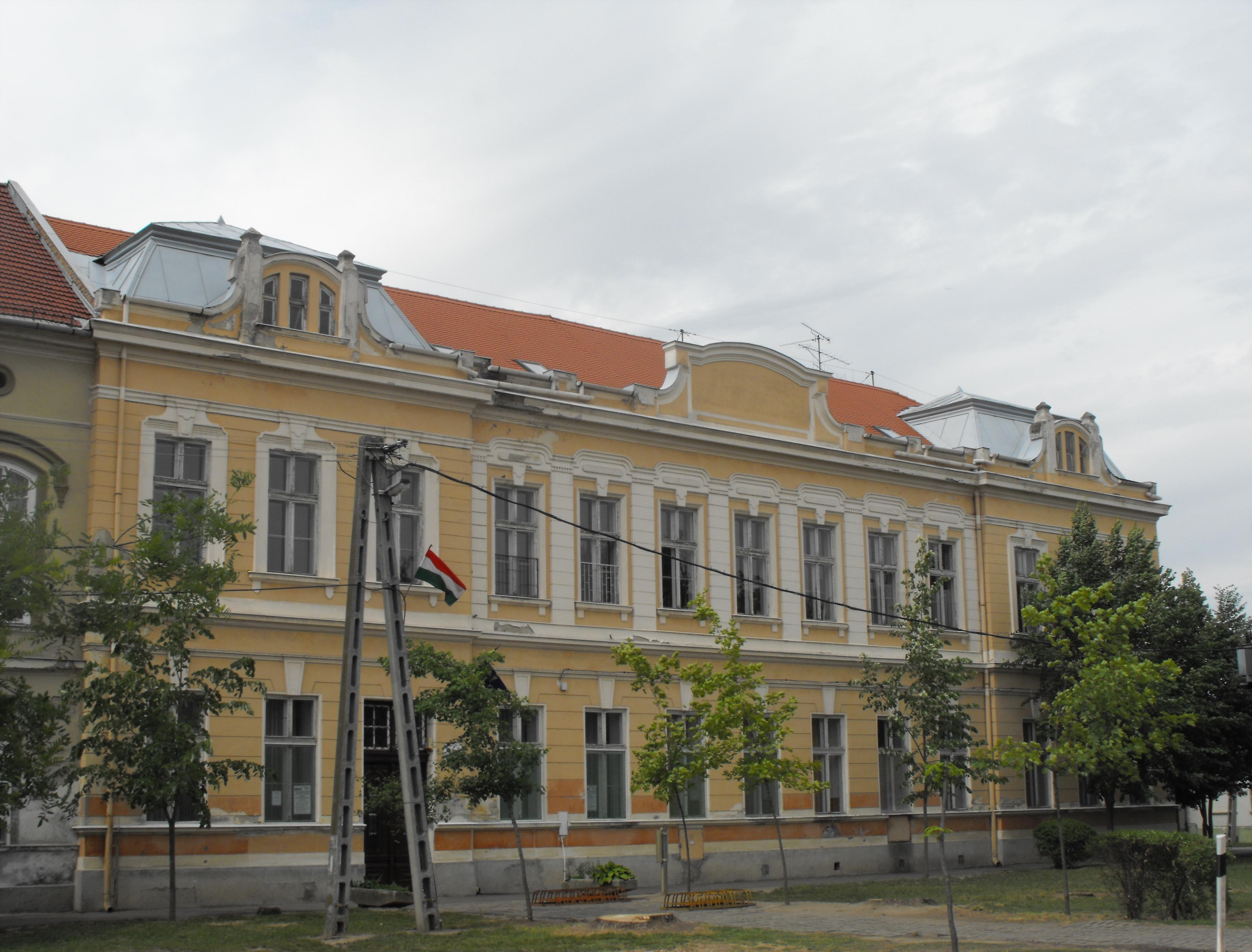 The younger wing of the building of the former boarding school in Makó, Hungary; nowadays it is functioning as a primary school.